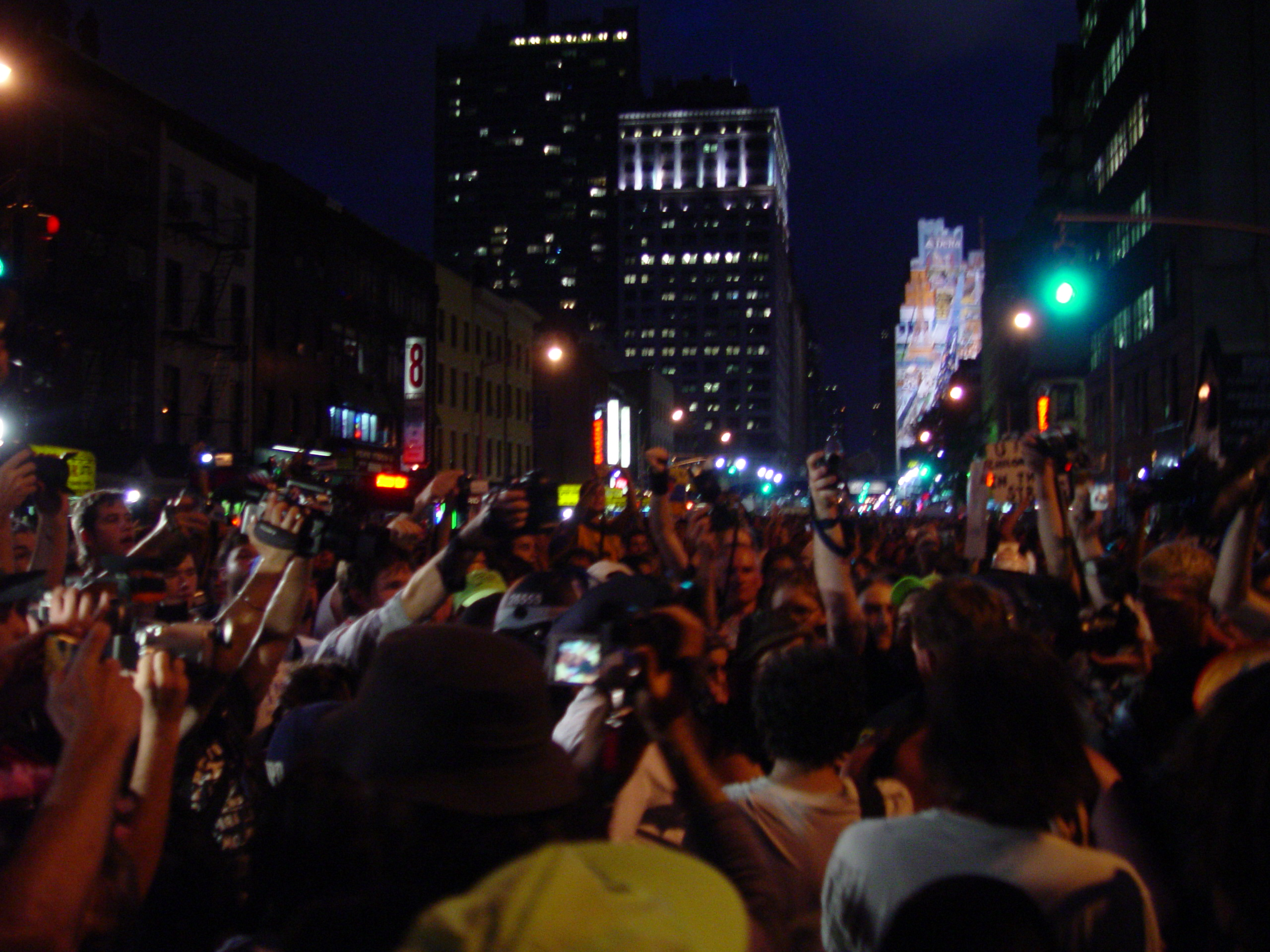 Protest of the Republican National Convention, New York City.